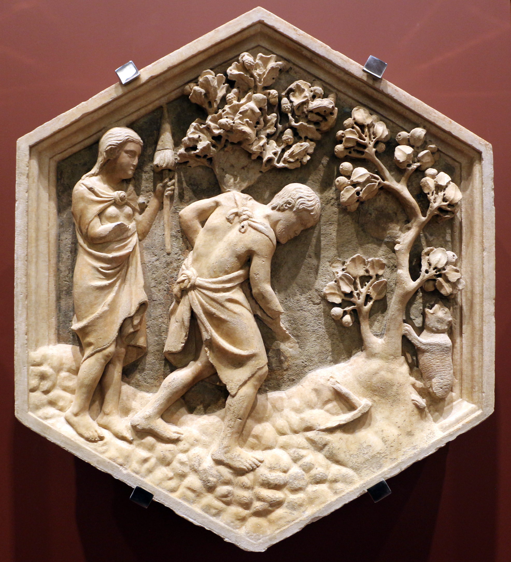 Reliefs of the Giotto's Belltower